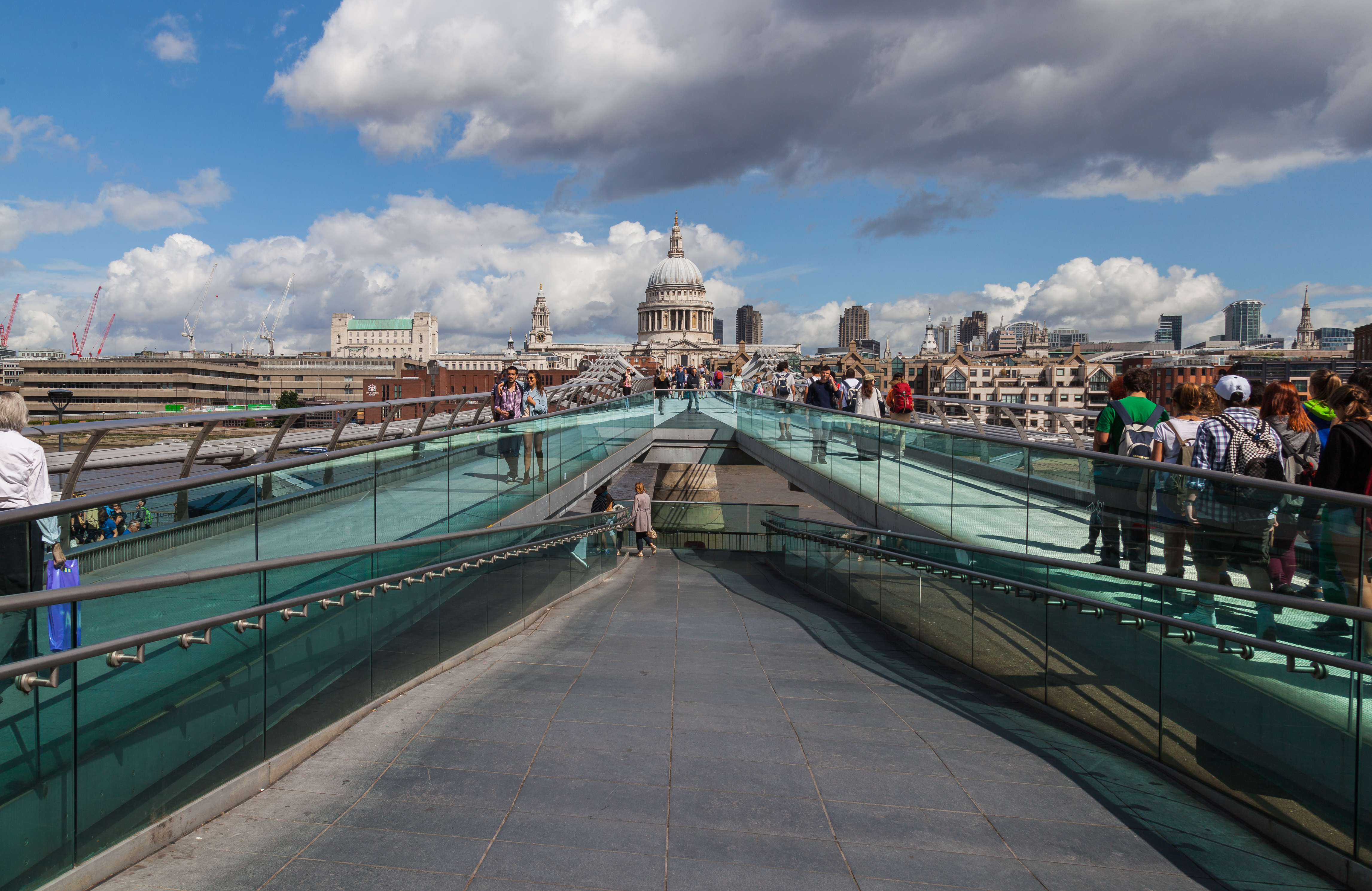 Millennium Bridge, London, England